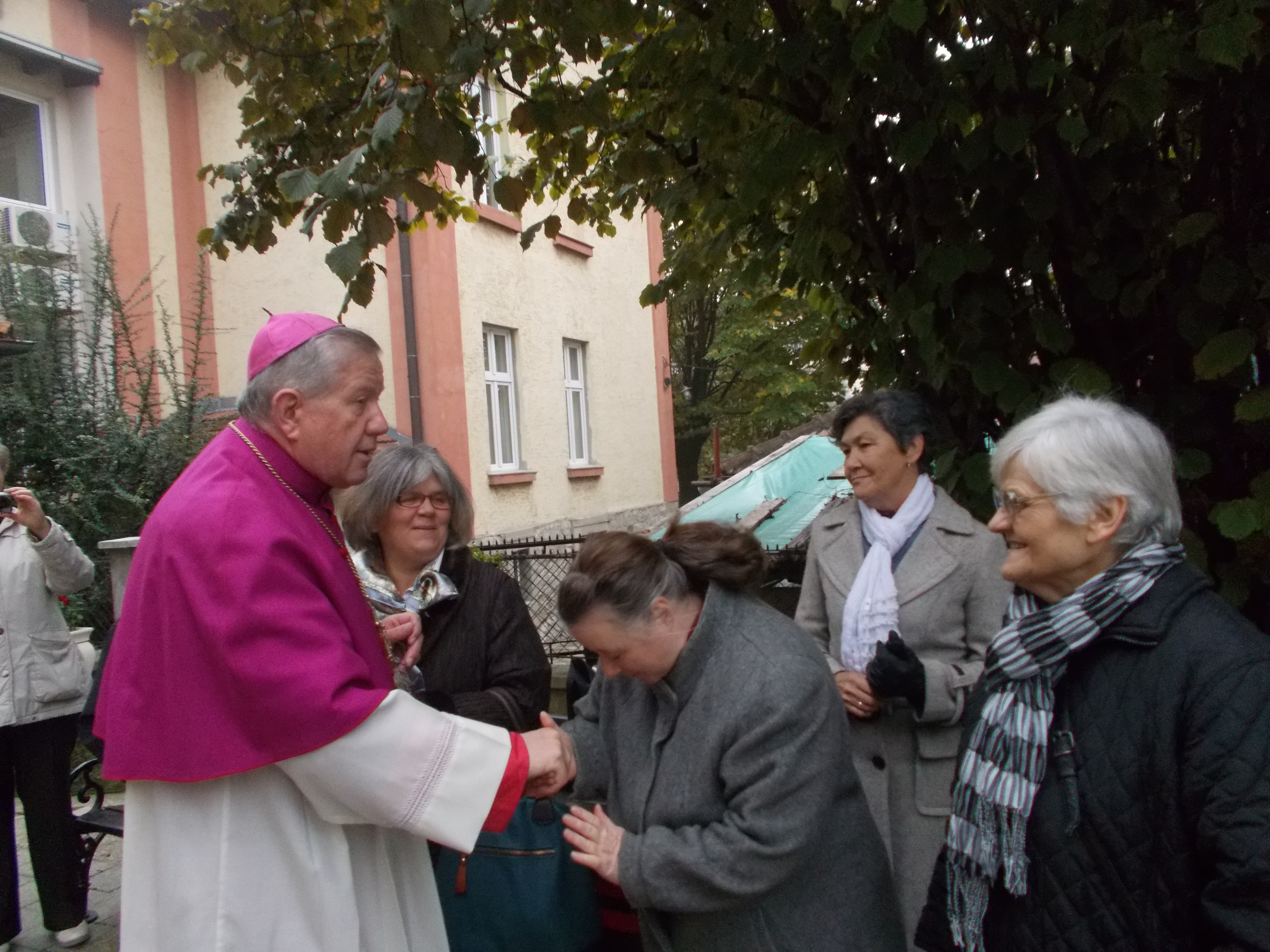 Archbishop Stanislav Hočevar with believers in Belgrade